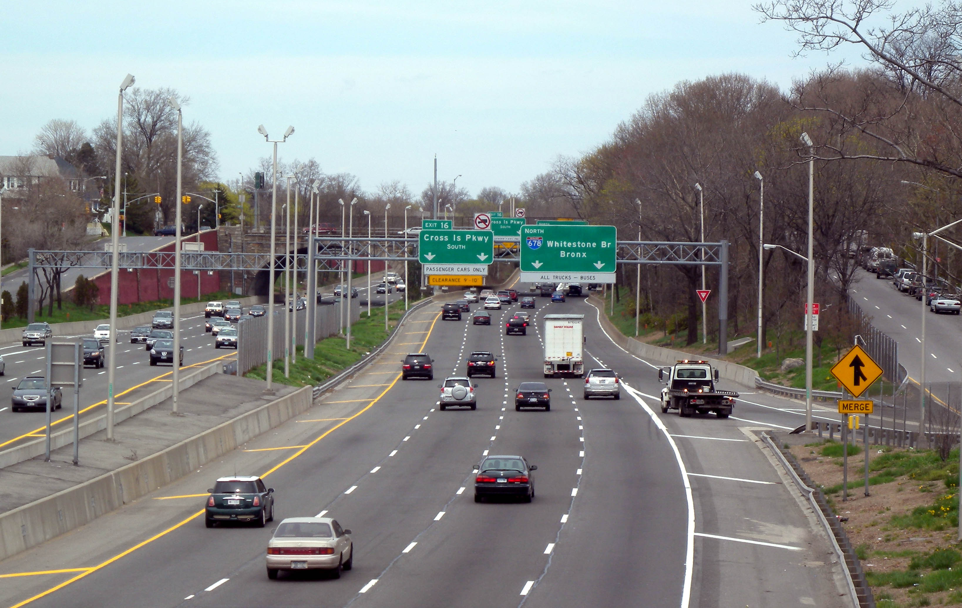 Looking north from 20th Avenue overpass at Exit 16 of Whitestone Expressway (Interstate 678) in northern Flushing on a cloudy midday.